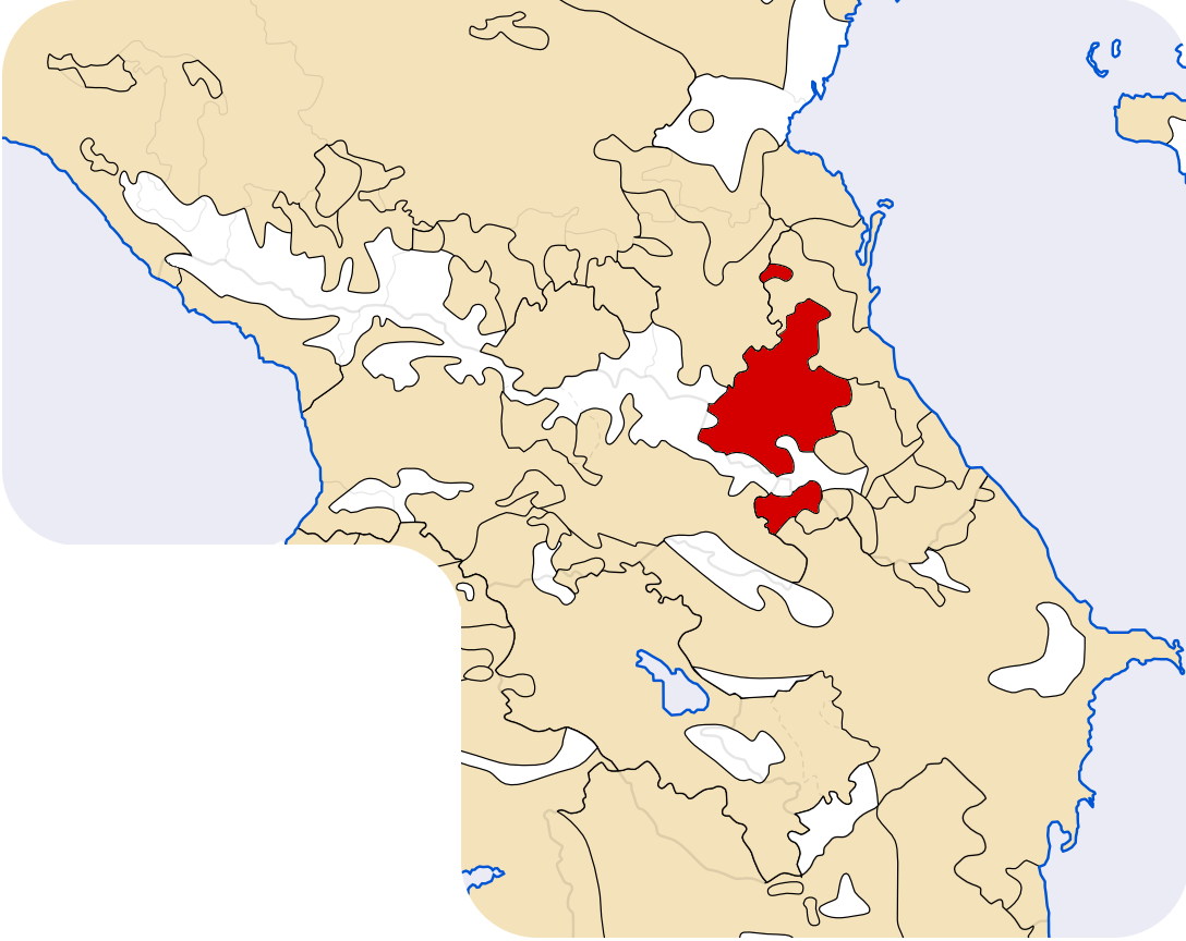 Location map of the Avars.